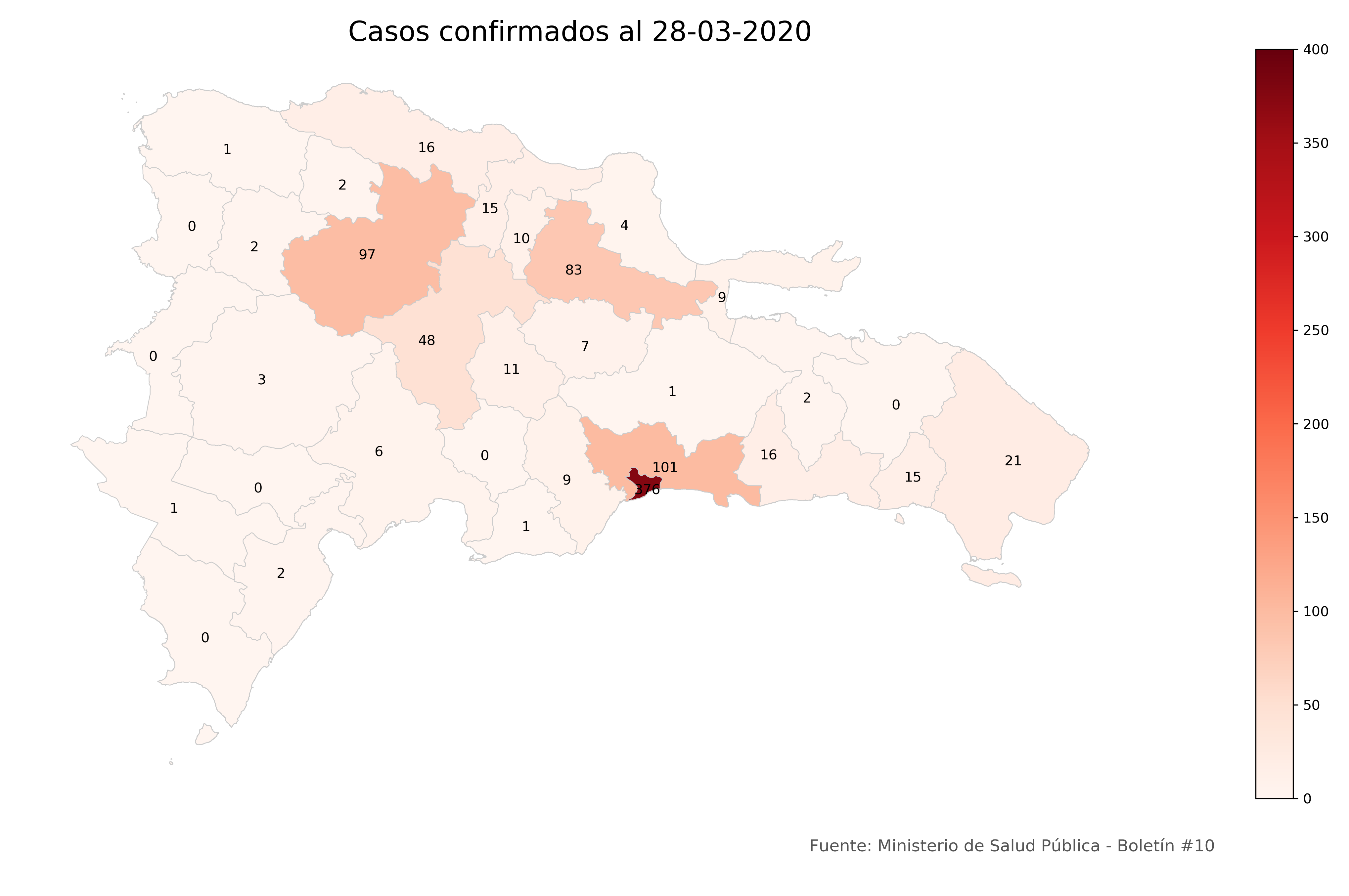 Confirmed COVID-19 cases in the Dominican Republic as of 03/28/2020